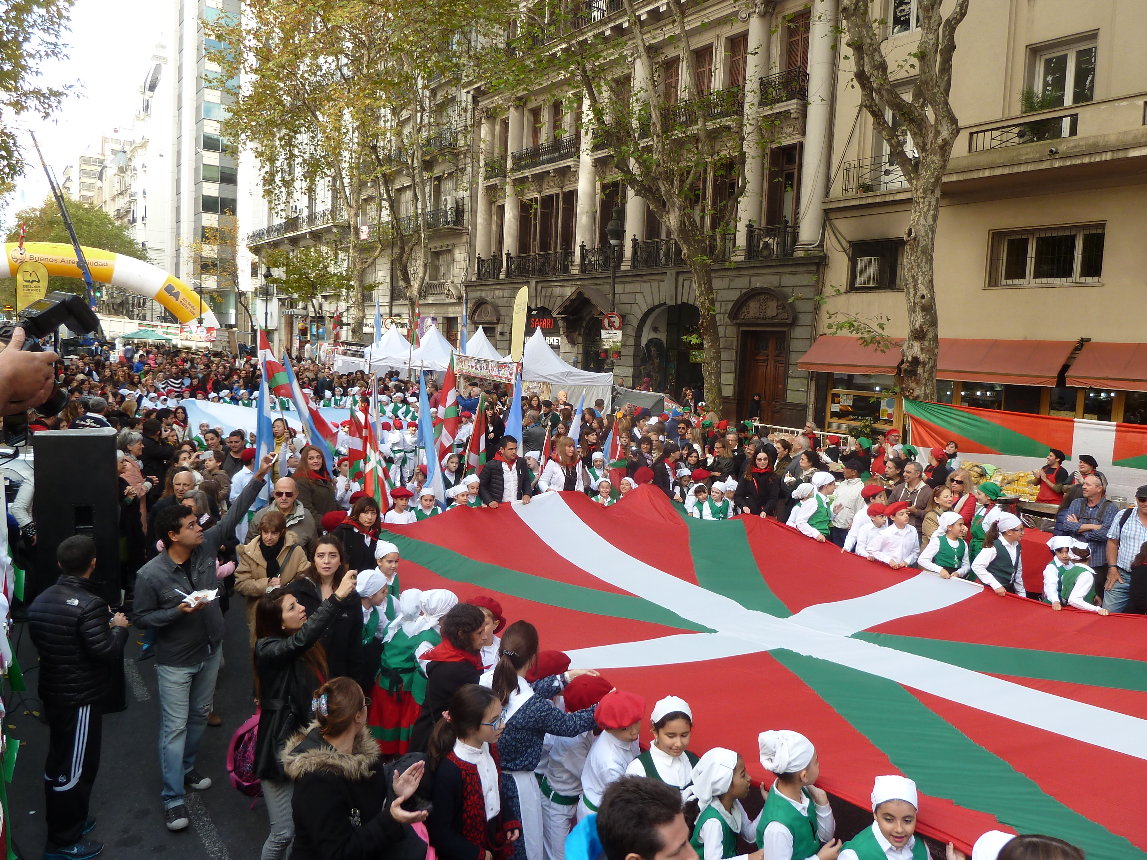 Basque Festival in Buenos Aires, Argetina. 12th May 2016.